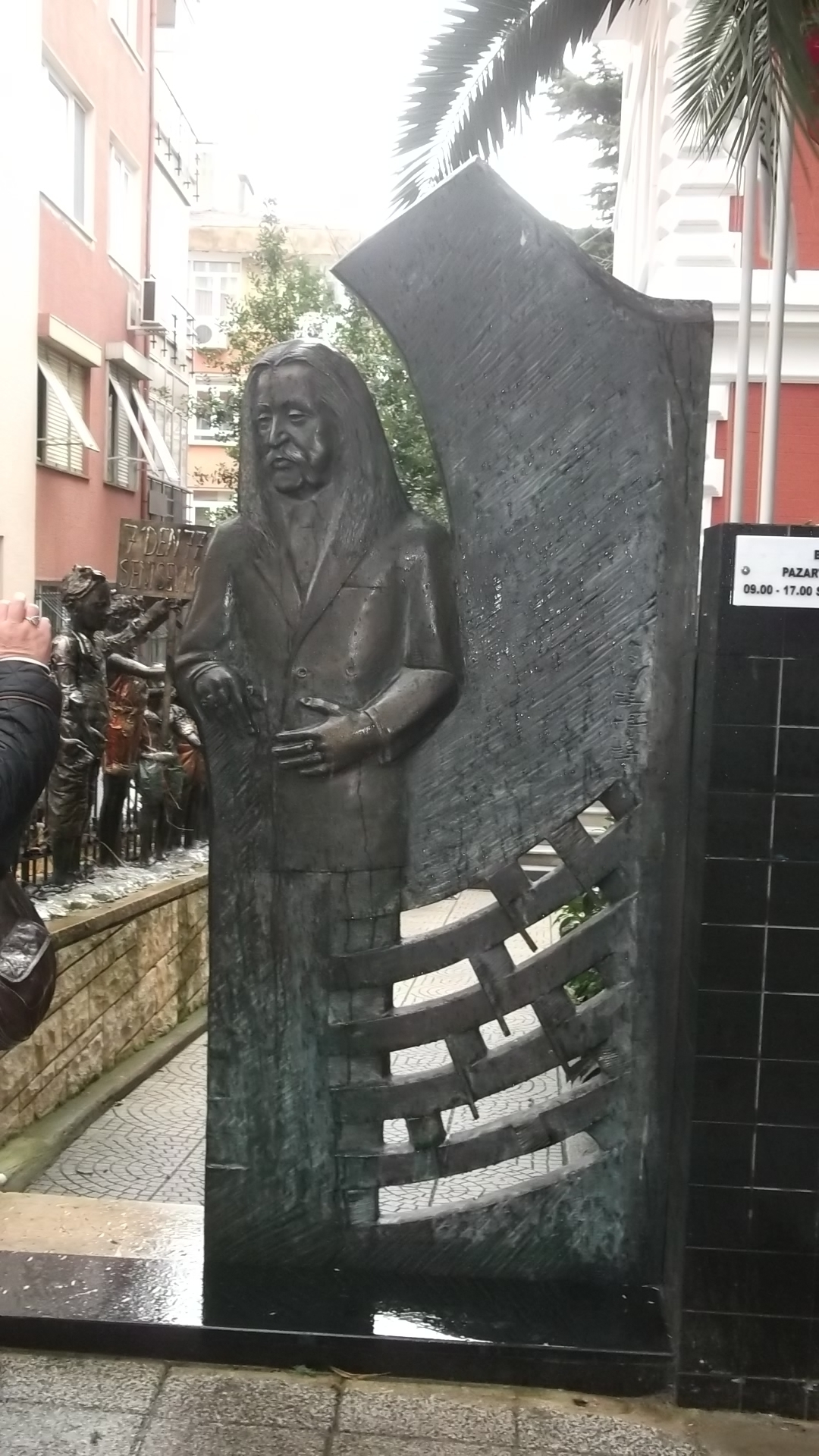 Statue of Barış Manço in front of Barış Manço Museum.